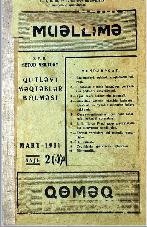 Muellime Qomeq Cover Page 1931